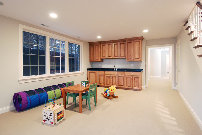 A recreation room in the lower level of a Chicago home.